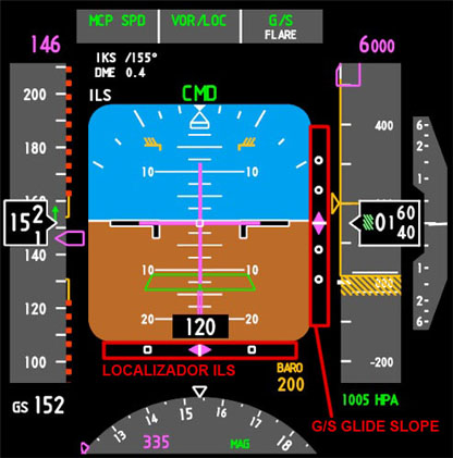 Principal Flight Display